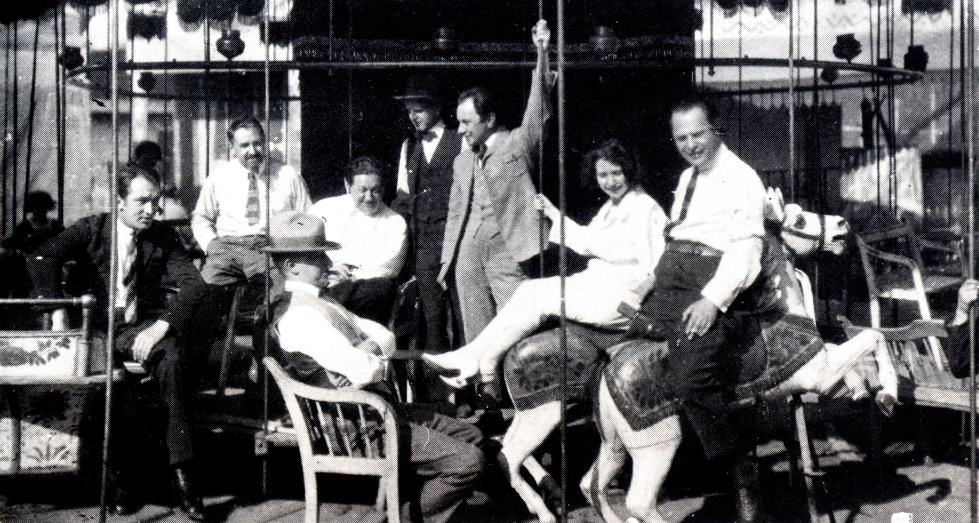 Crew of movie Das Wachsfigurenkabinett having rest break. From the left Wilhelm Dieterle, Ali Hubert, E.A. Dupont, Paul Leni, Fritz Maurischat, John Gottowt, Lore Sello, and on whitehorse in the right Leo Birinski.